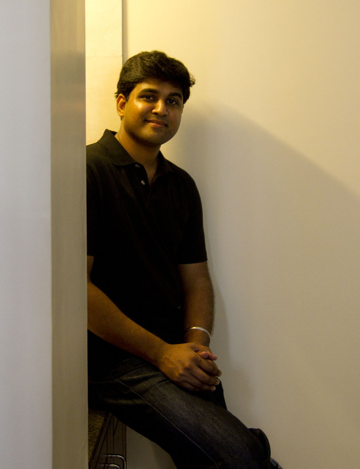 A socio-political leader who brought about a change in social issues of the younger generation. A well known writer, poet and novelist.